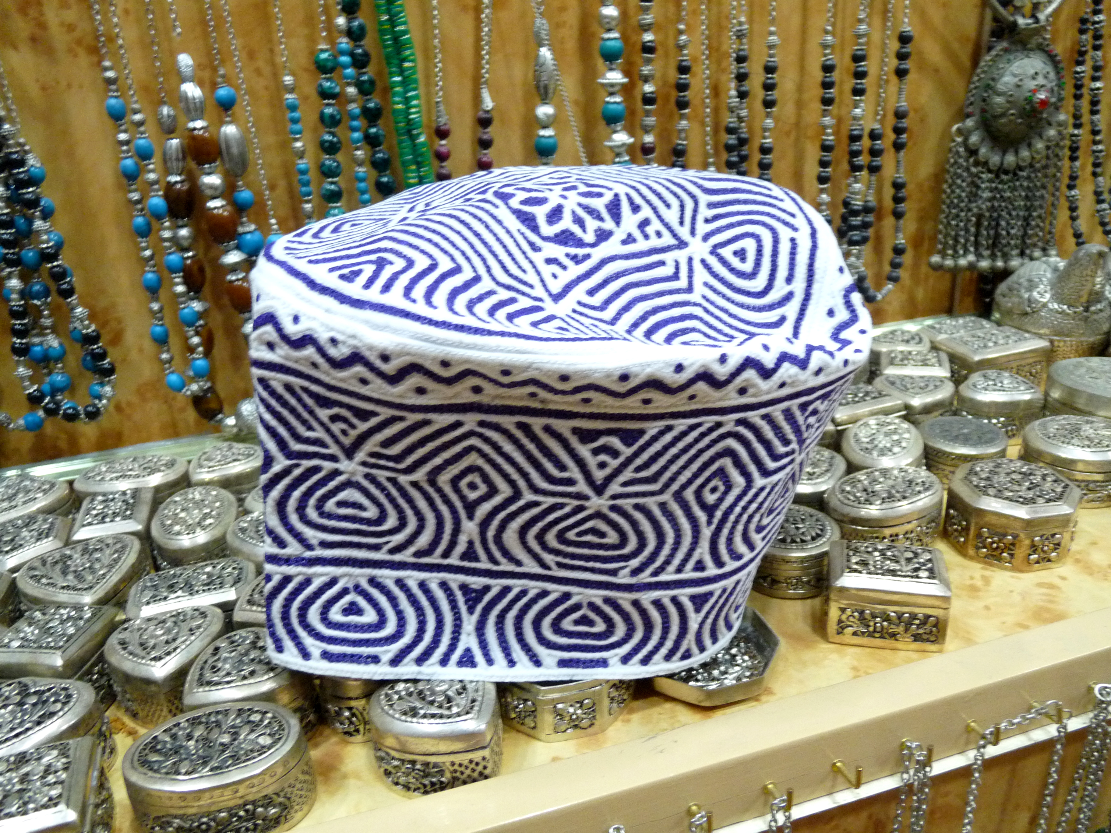 Craft market in Nizwa (Oman)